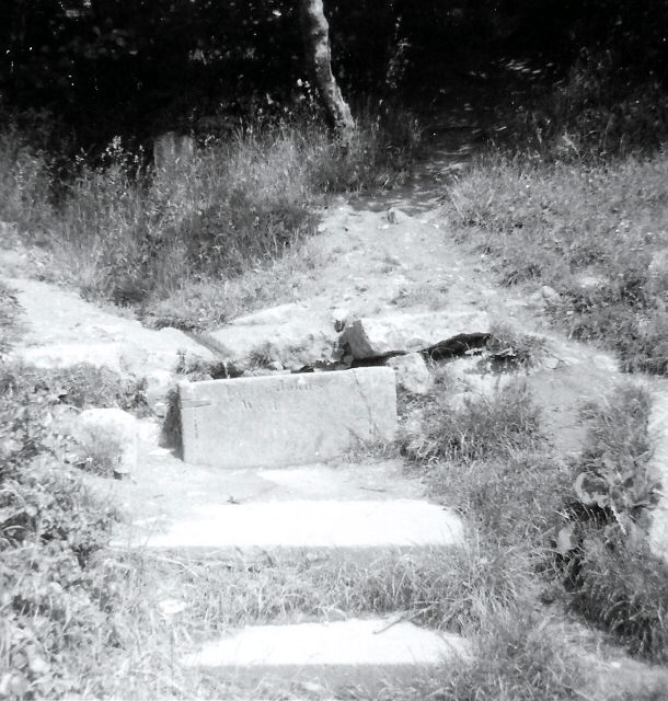 Little John's Well. Located in woodland just off the A638 North of the road to Skelbrooke.